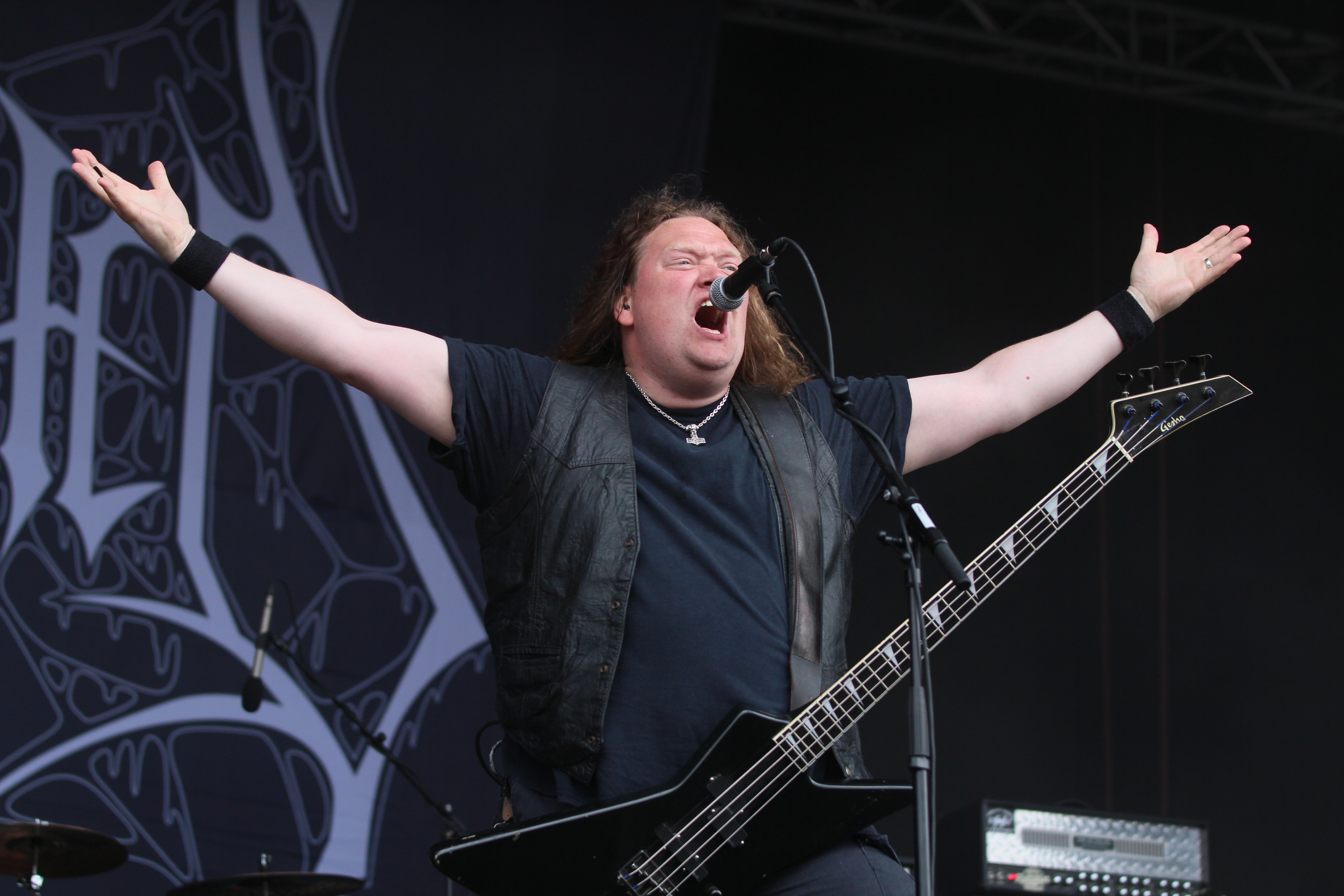 The Swedish death metal band Unleashed at the Rockharz Open Air 2014 in Ballenstedt/Germany